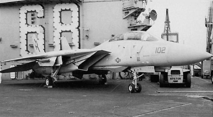 A U.S. Navy Grumman F-14A Tomcat fighter (BuNo 160403) from Fighter Squadron VF-41 Black Aces, Carrier Air Wing 8 (CVW-8), sits on deck of the aircraft carrier USS Nimitz (CVN-68). This aircraft with the callsign "Fast Eagle 102" (crew: CDR Henry 'Hank' Kleeman/LT David 'DJ' Venlet) was one of the two aircraft that each shot down a Libyan Sukhoi Su-22 later that day after having been fired on.